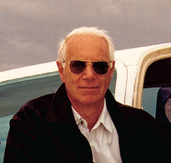 Jac Holzman